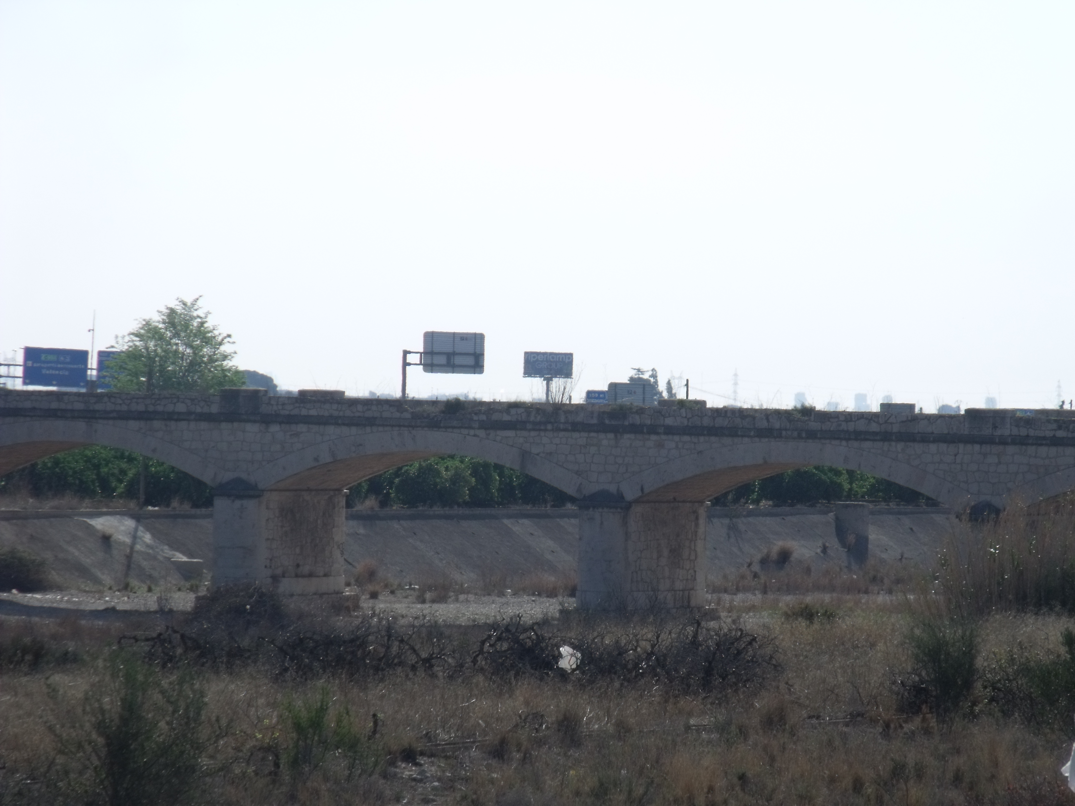 Bridge of the old Madrid-Valencia road over the Poyo ravine, in Ribarroja.